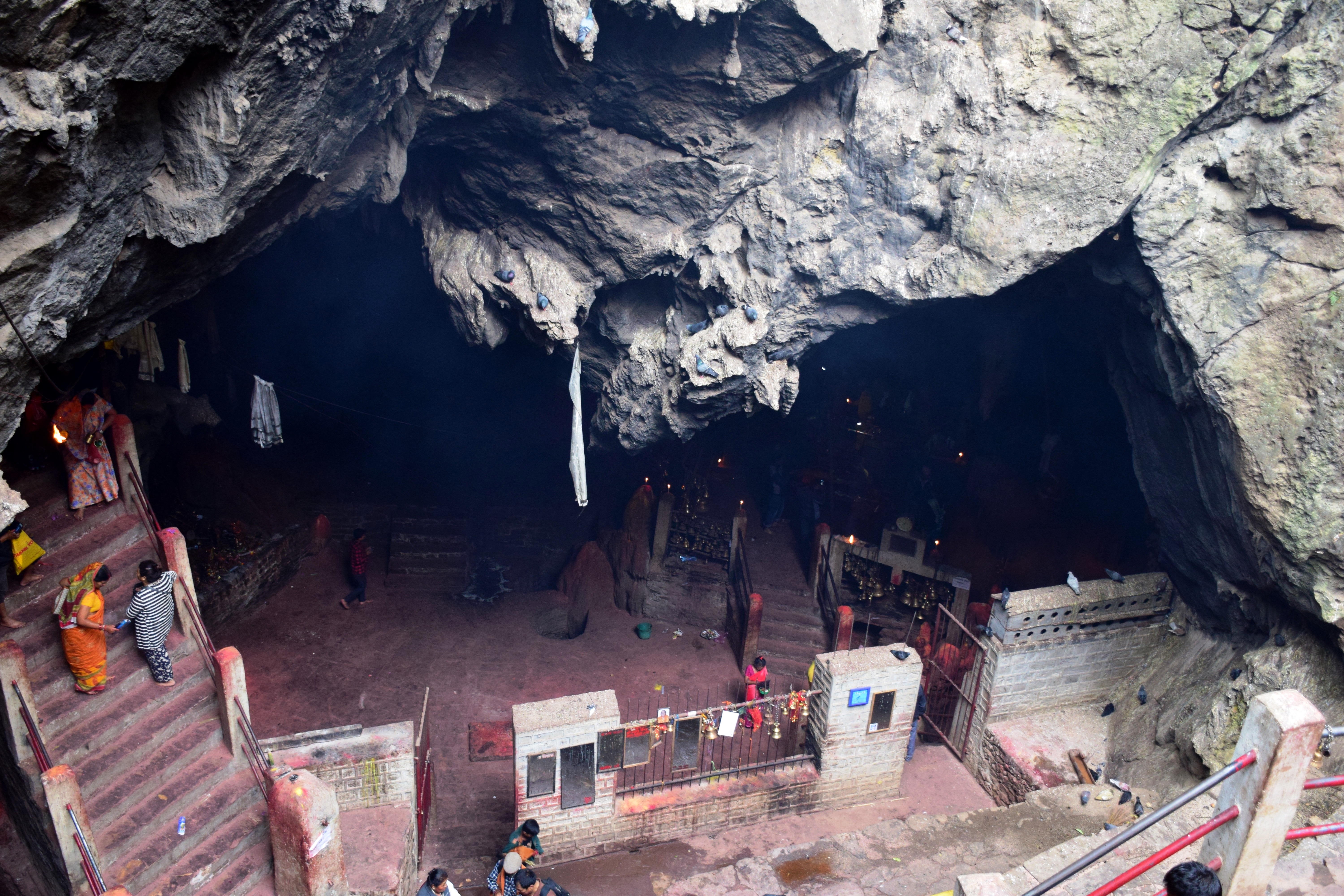 Maratika Cave, also known as Haleshi or Halase, which is located in Khotang District in Nepal, circa 185 km south west of Mount Everest. It is a venerated site of pilgrimage associated with Mandarava, Padmasambhava